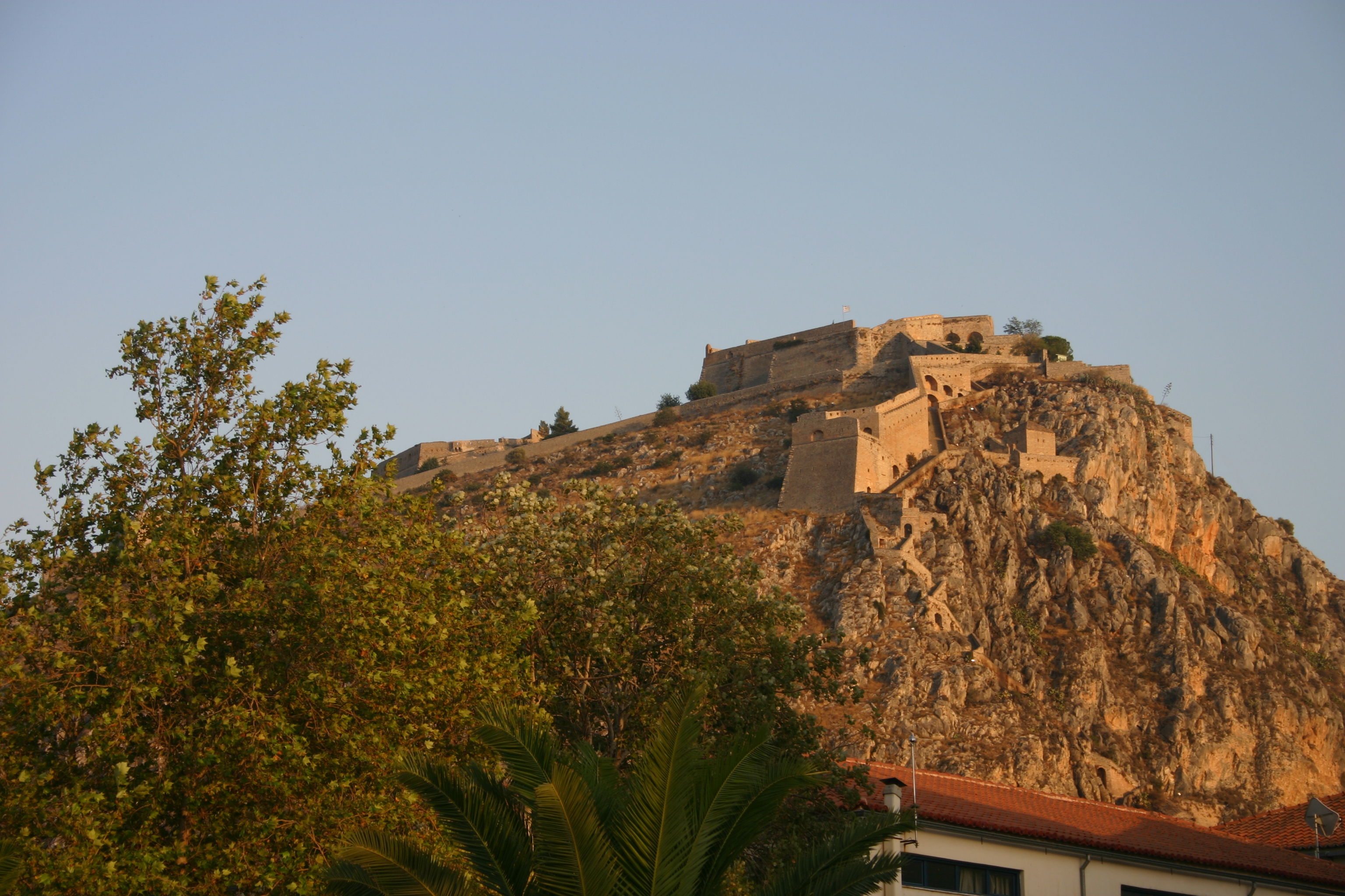 Author: Frank van Mierlo Please give clear credit to the photographer (Frank van Mierlo) when using this image.